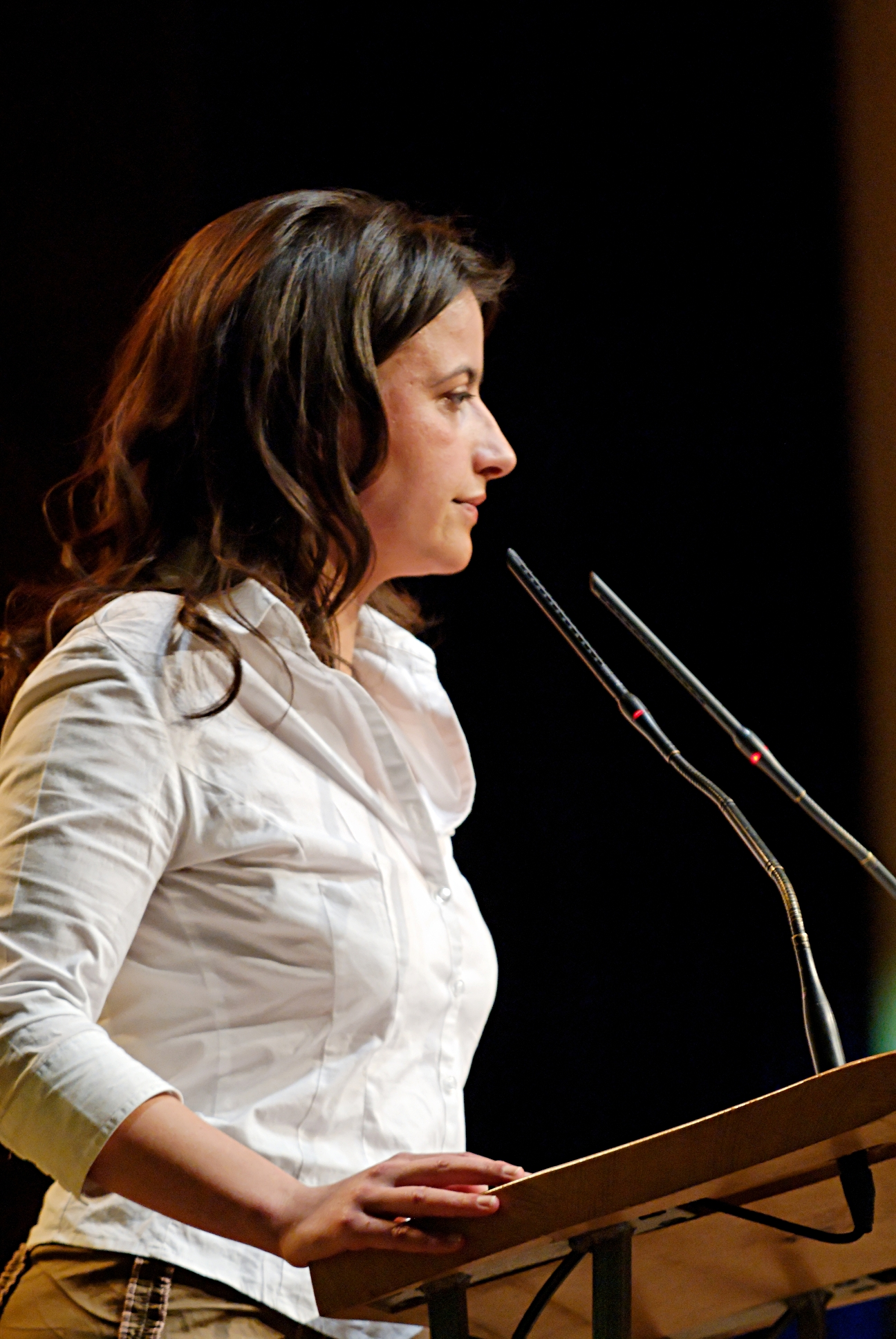 Cécile Duflot at a meeting held on Apr. 5, 2007 by the French Greens Party at the Palais de la Mutualité in Paris.